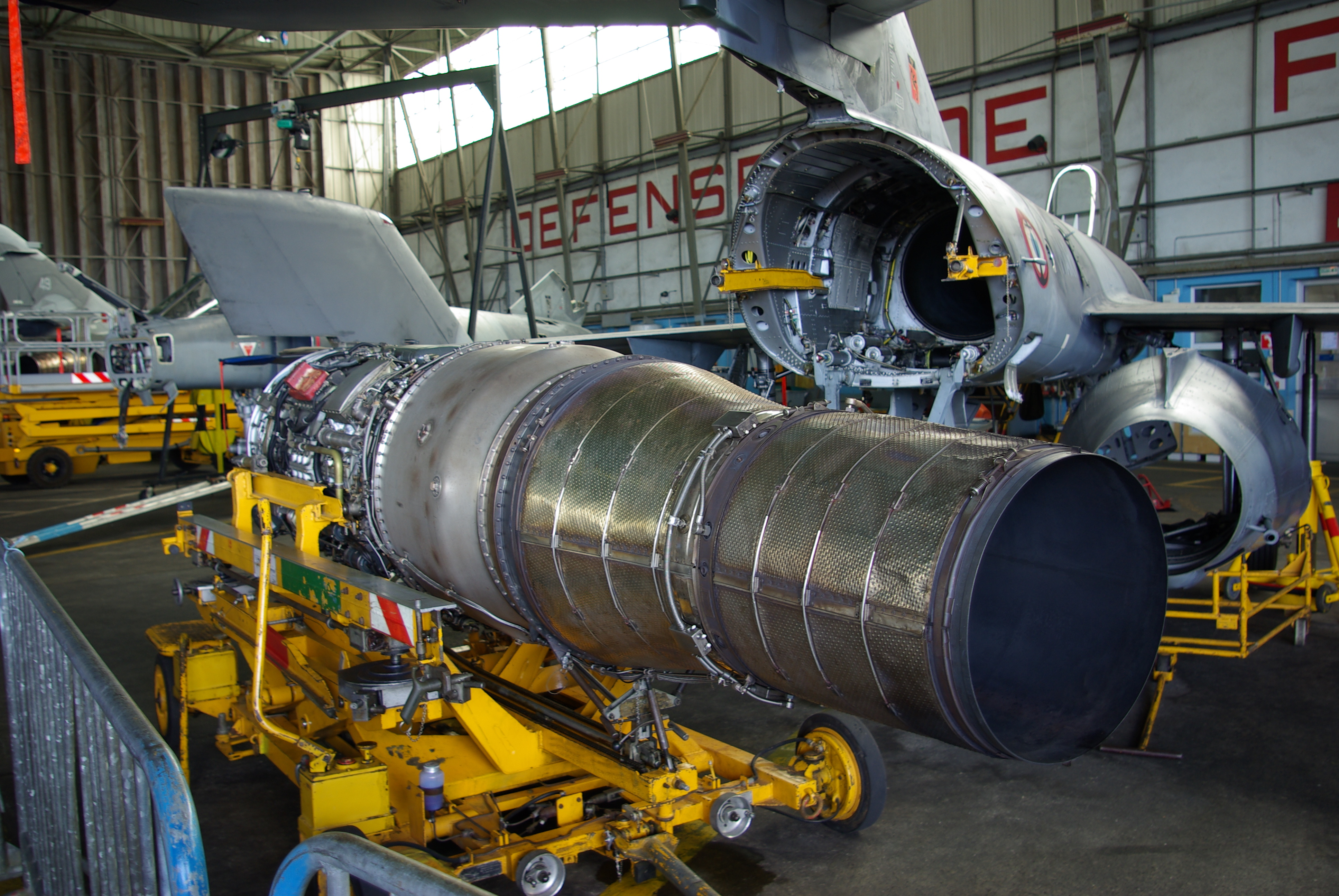 Photo of a turbojet engine Snecma Atar 8K50 fitting out the Super Etendard. Photo taken at NAS Landivisiau (France)